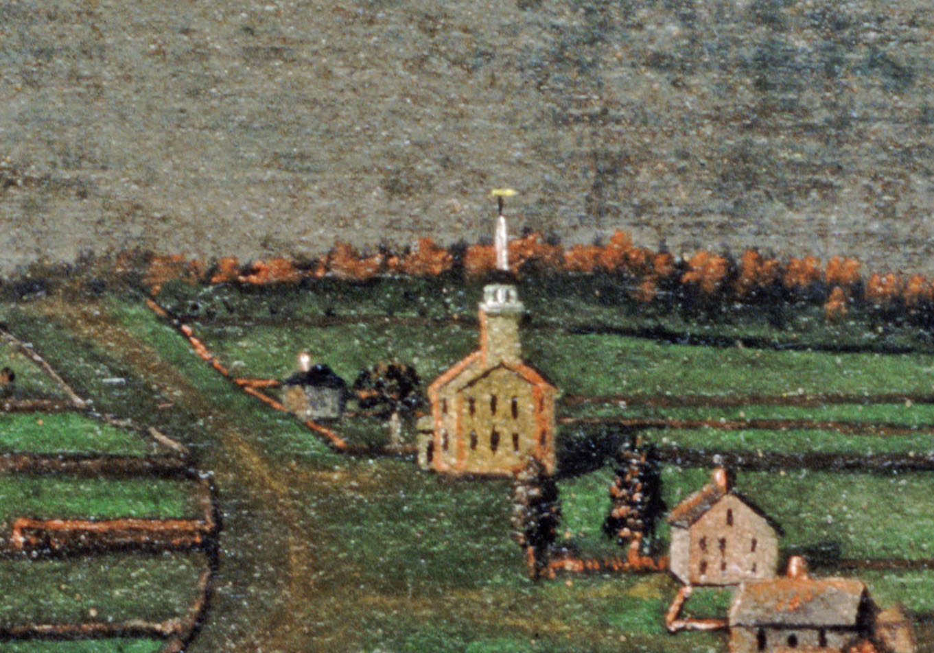 The Congregational Meeting House in Blue Hill, Maine, built 1794, burned 1844. Detail from Morning View of Blue Hill Village, 1824 by Reverend Jonathan Fisher (American, 1768-1847)